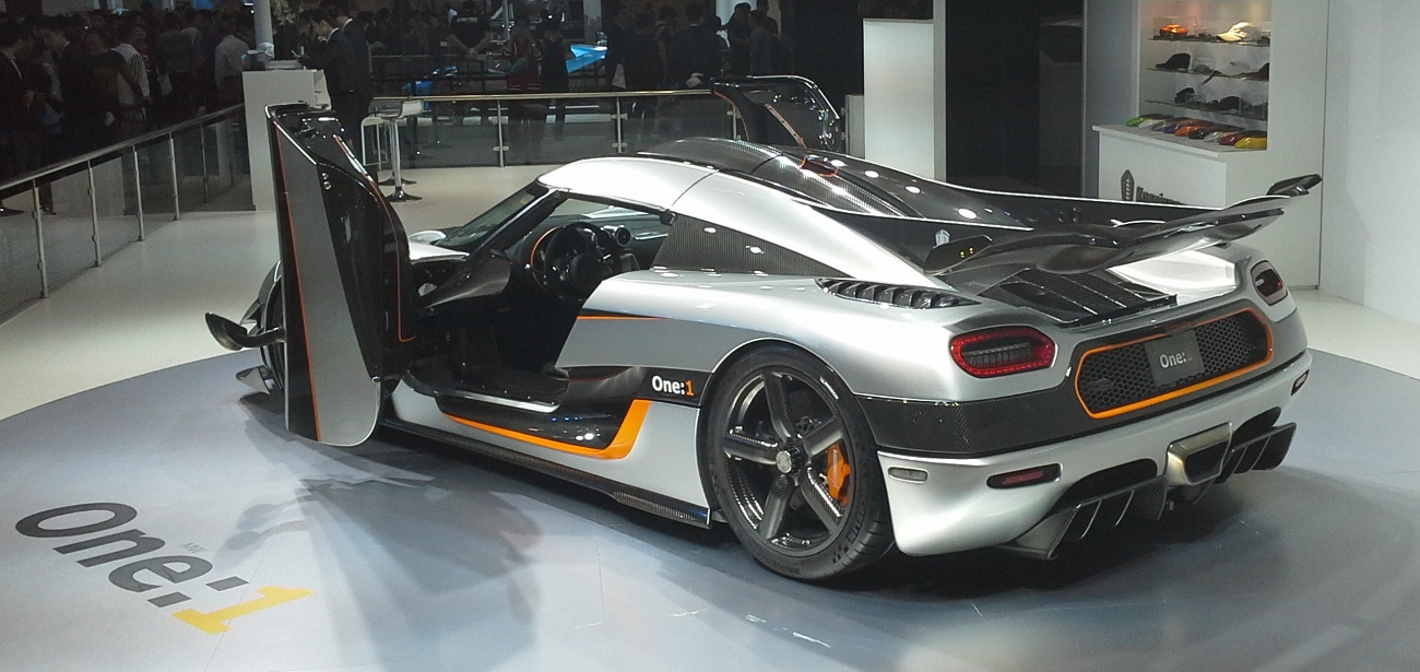 Koenigsegg One:1 photographed at the Auto China 2014, Beijing, China.